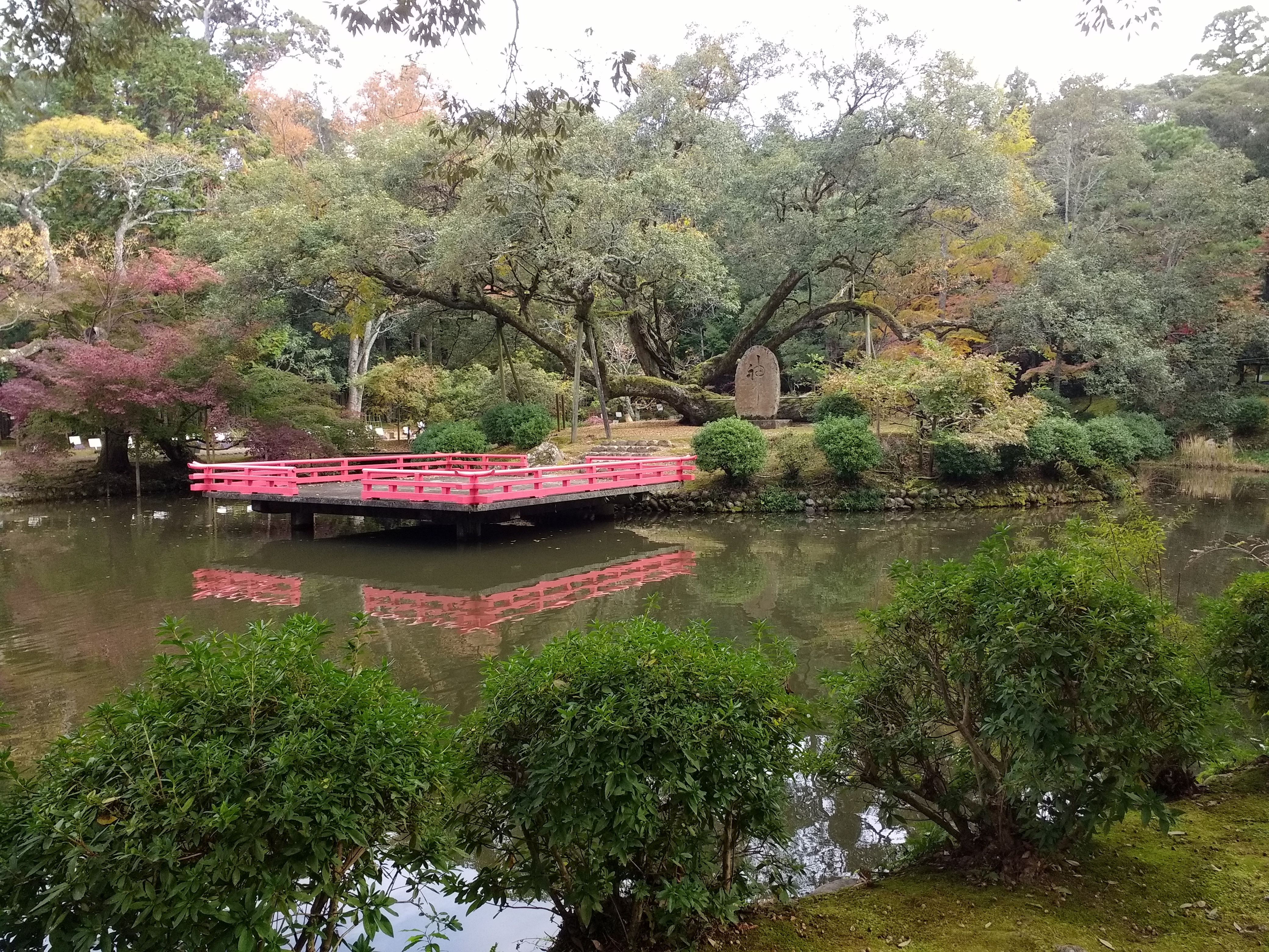 Manyo Botanical Garden (萬葉植物園) in Nara, Japan.